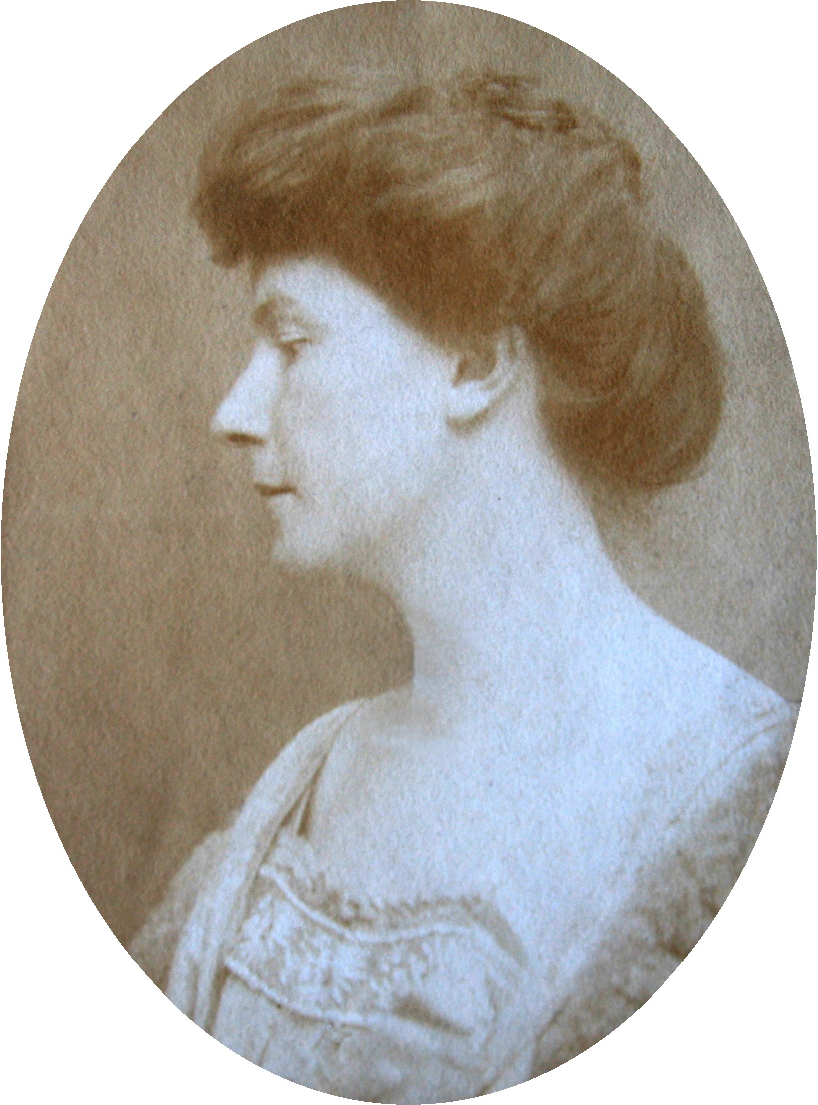 The Irish pianist, Tilly Fleischmann (1882-1967)